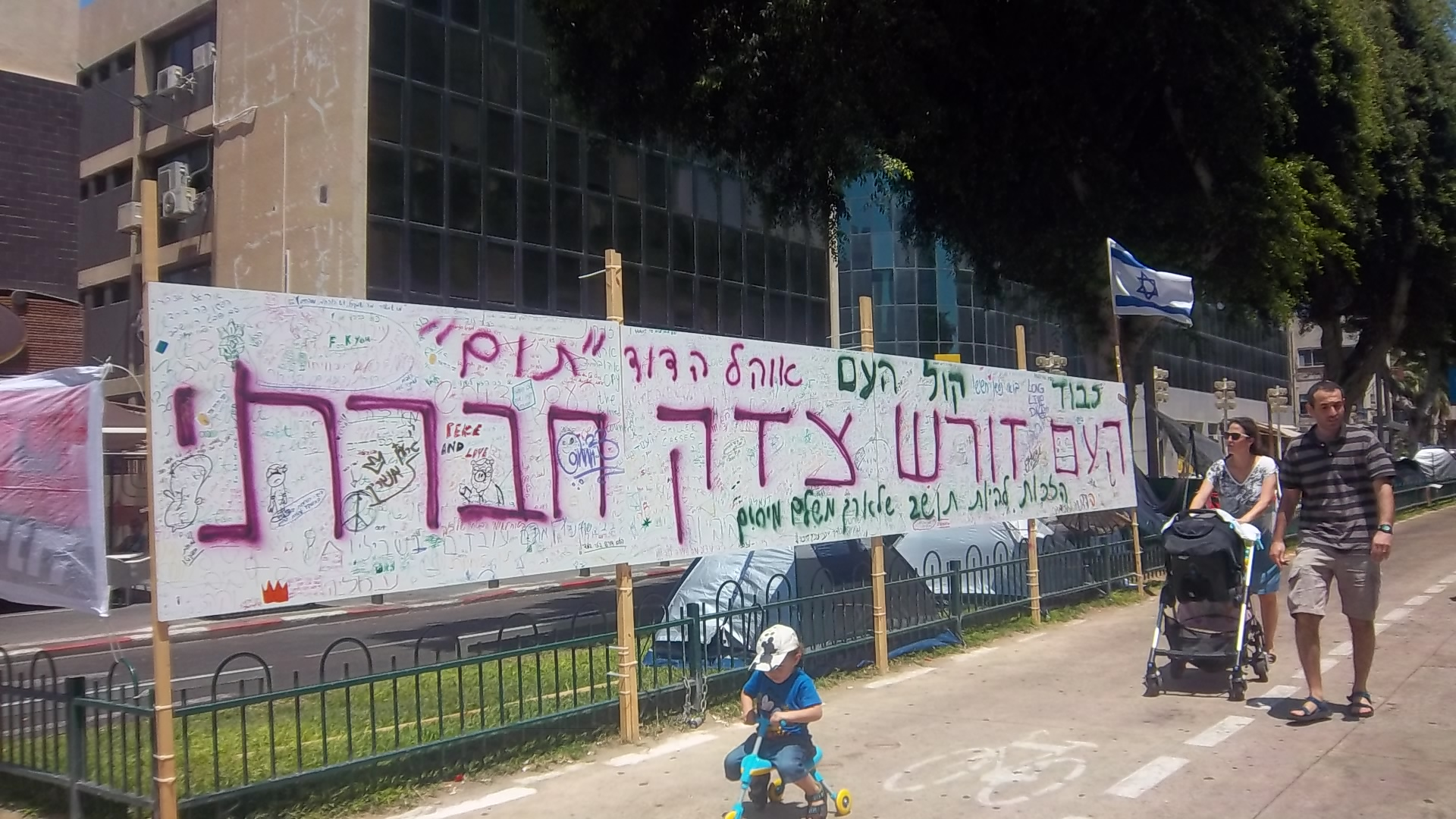 posters from Rothschild Bd at Tel Aviv